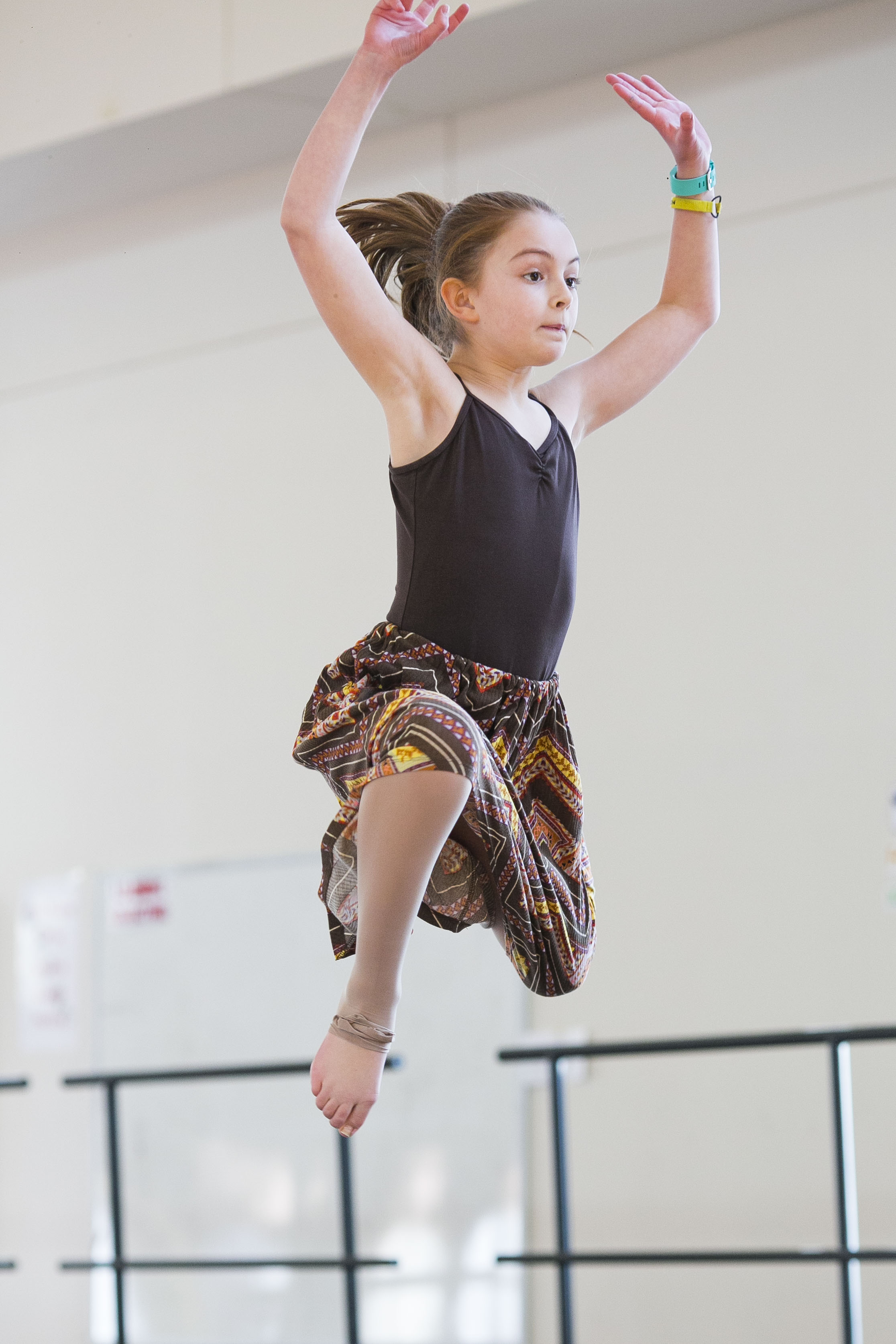 BISC Lincoln Park student participating in the Juilliard-Nord Anglia Performing Arts Program. Photo credit: Todd Rosenberg